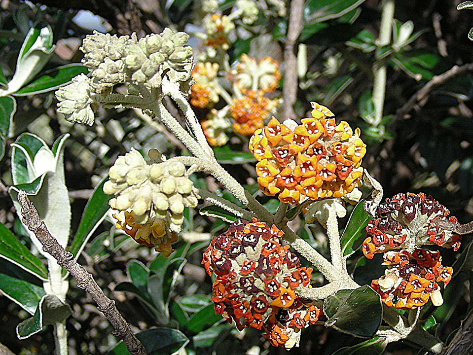 Under the name of Quishuar, this plant was sacred to the Incas. Growing at the Tiwanaku archaeological site, Bolivia. In context at